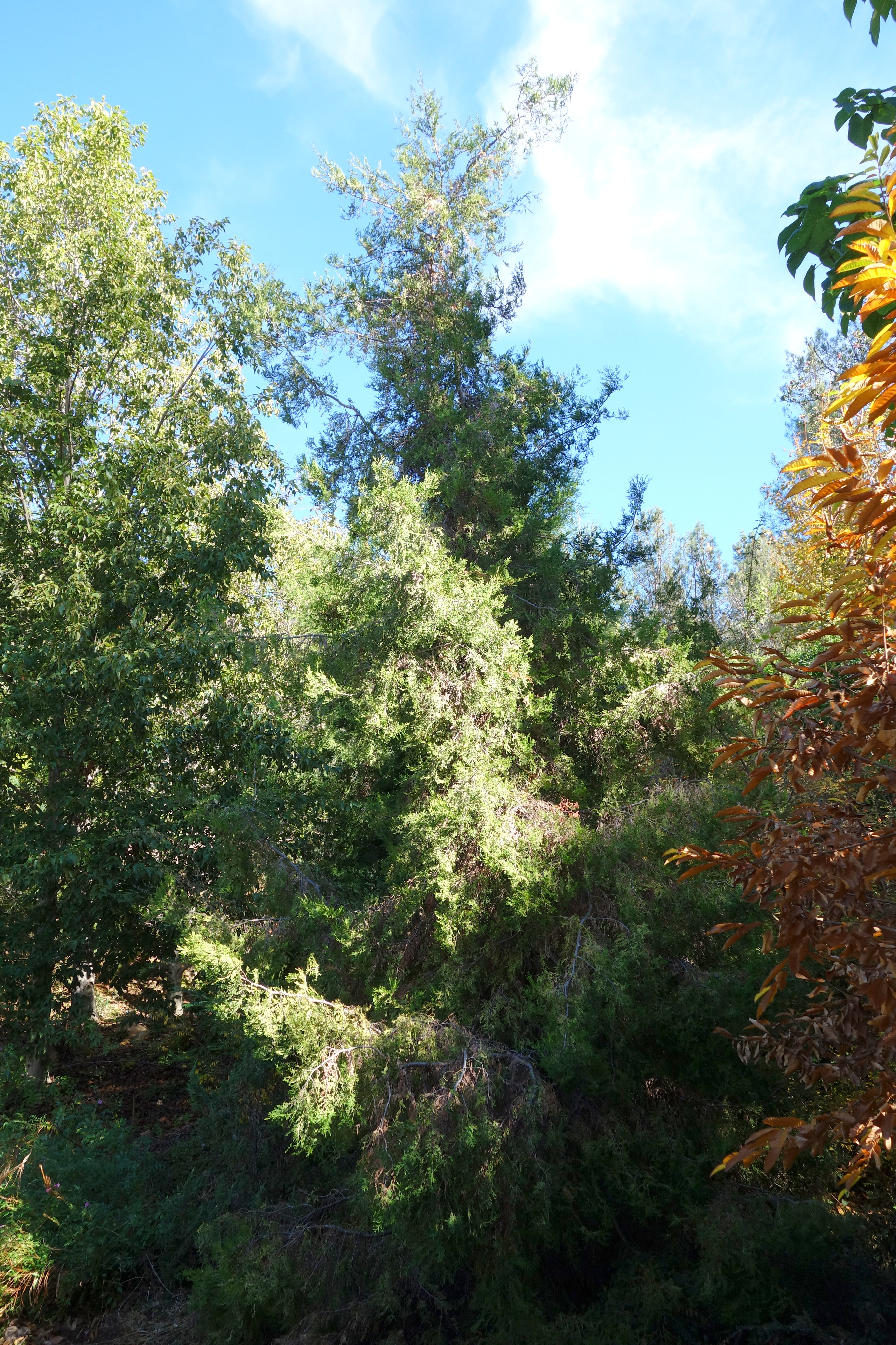 Botanical specimen in Quarryhill Botanical Garden, Glen Ellen, California, USA.